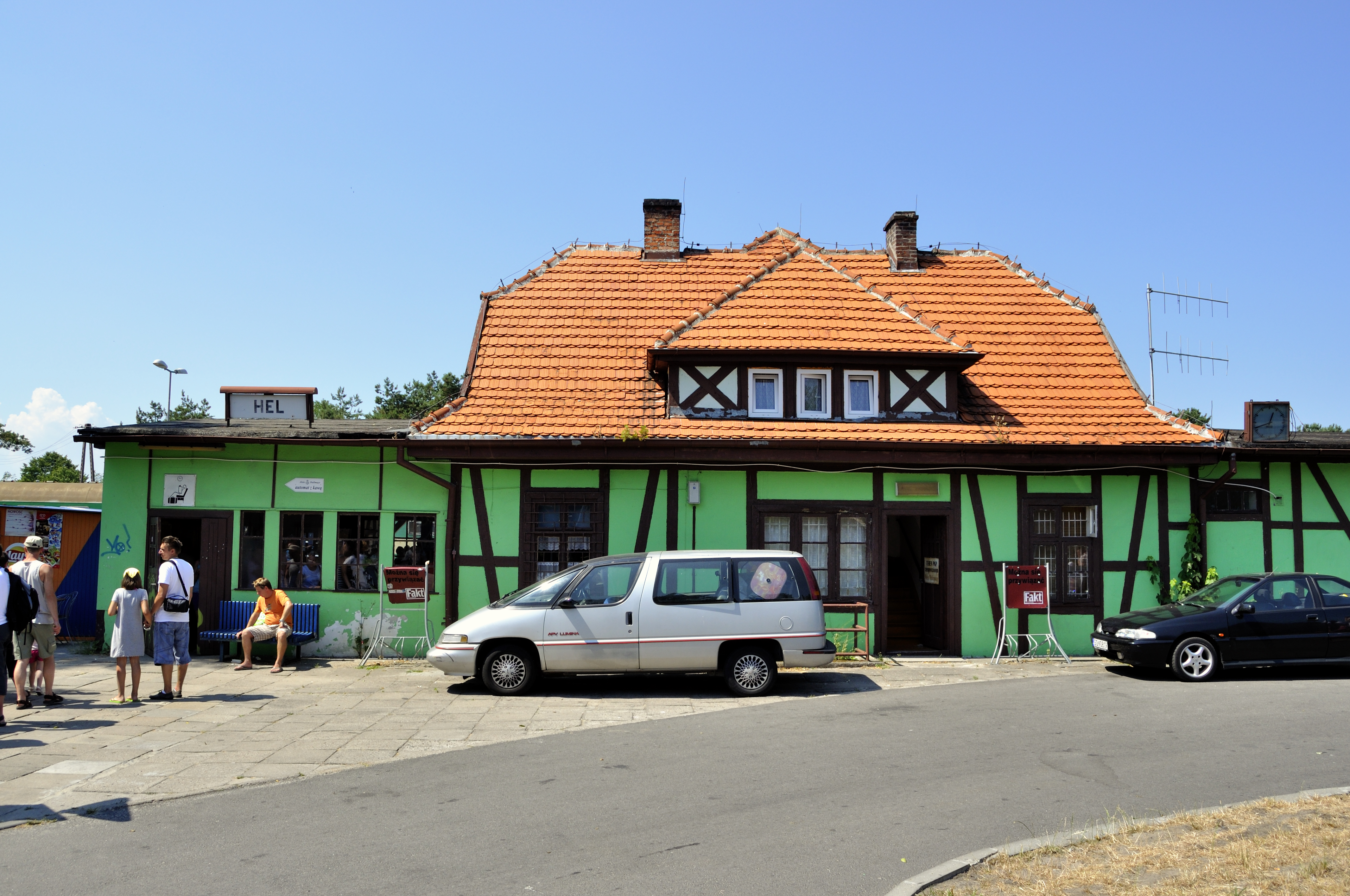 Picture taken in Hel after Wikimania 2010 conference.